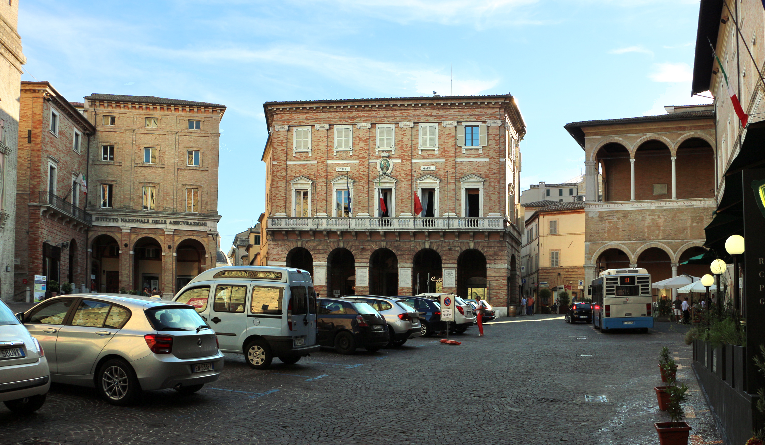 Buildings in Macerata